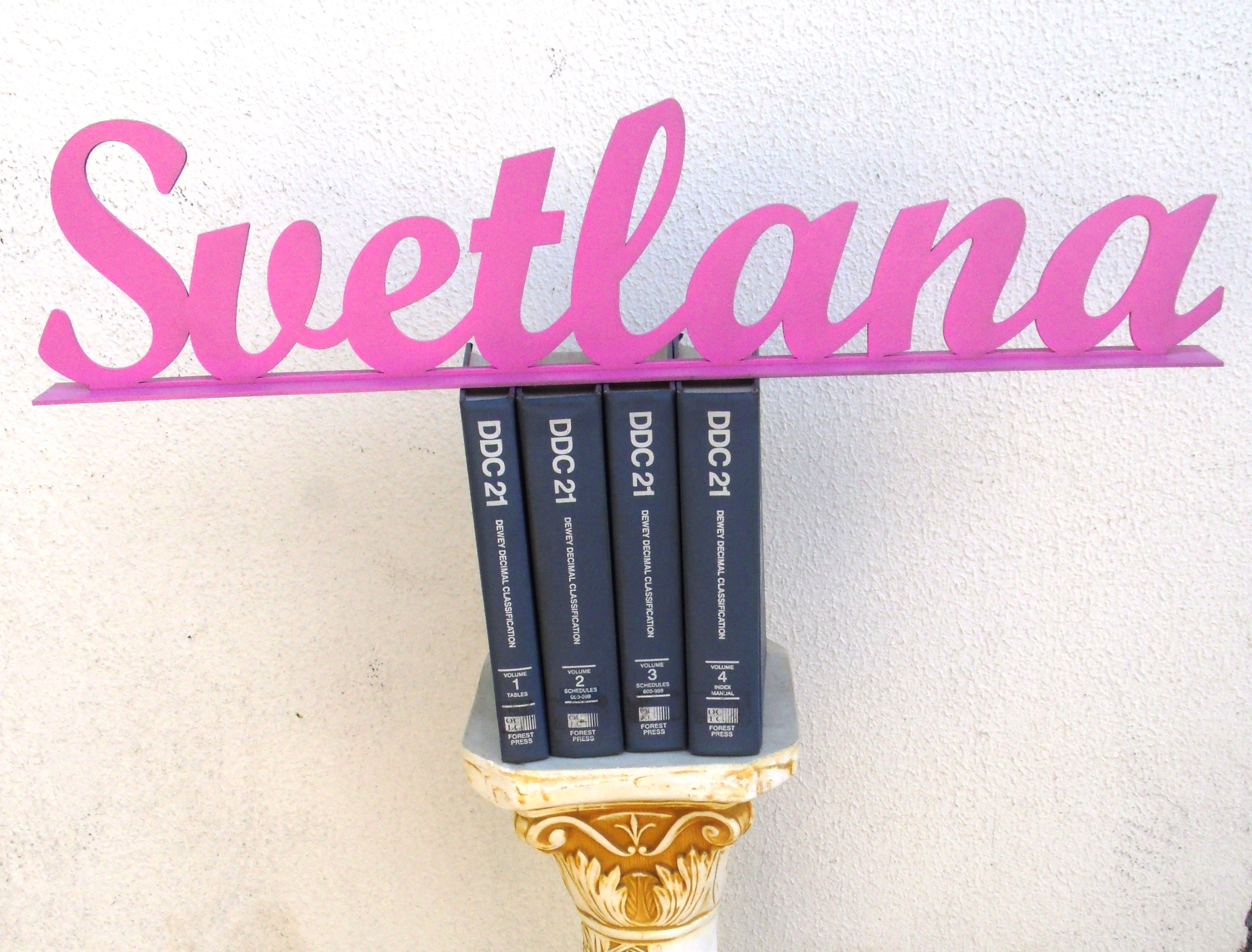 Svetlana (name)